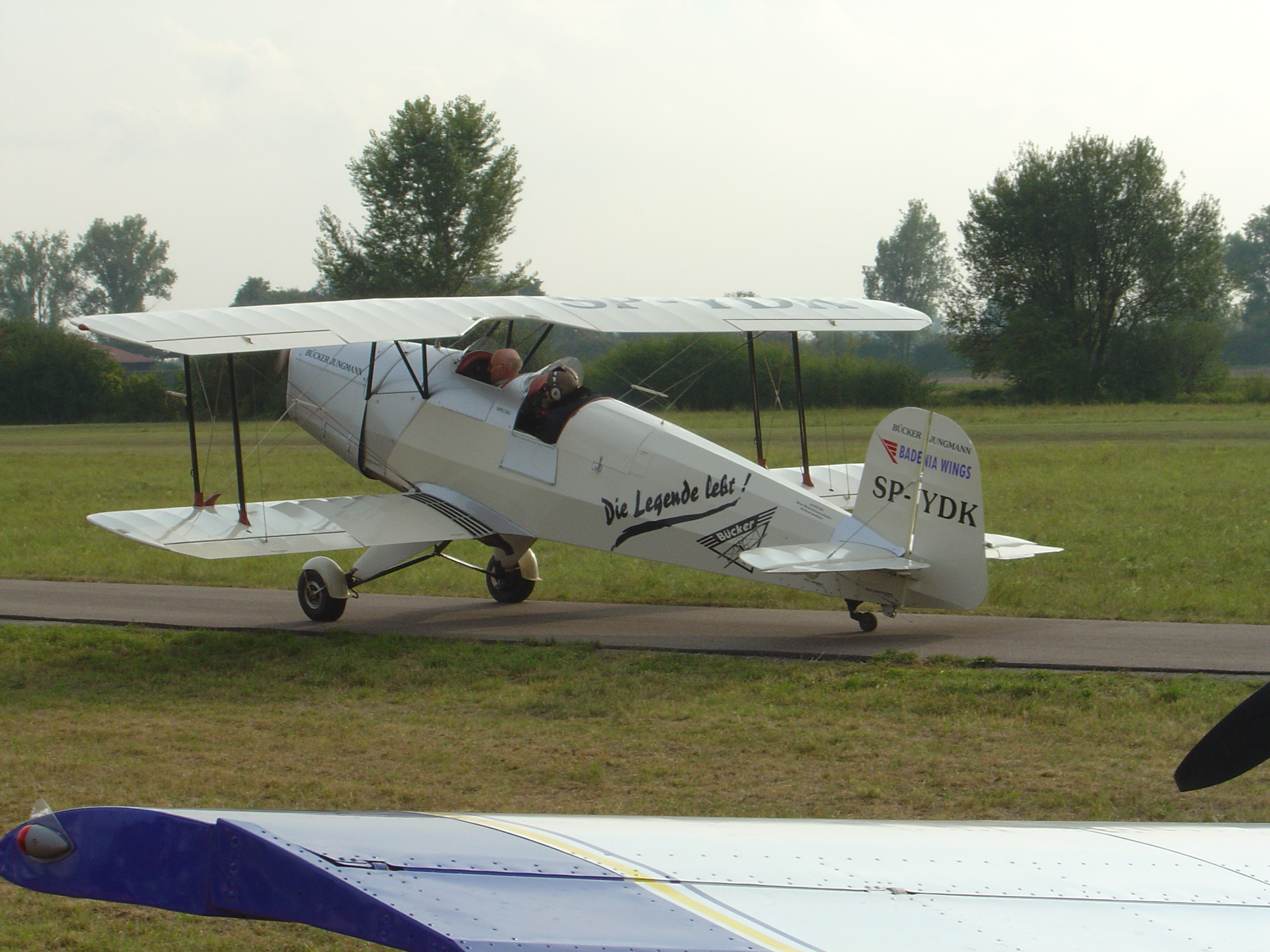 A Bücker Bü-131B Jungman private civil aircraft as seen at the Weinheim air show 2003.